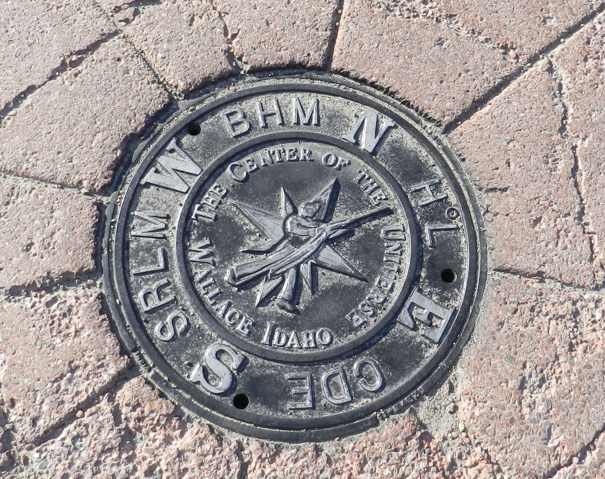 Manhole cover, pinpointing the Center of the Universe in Wallace, Idaho.